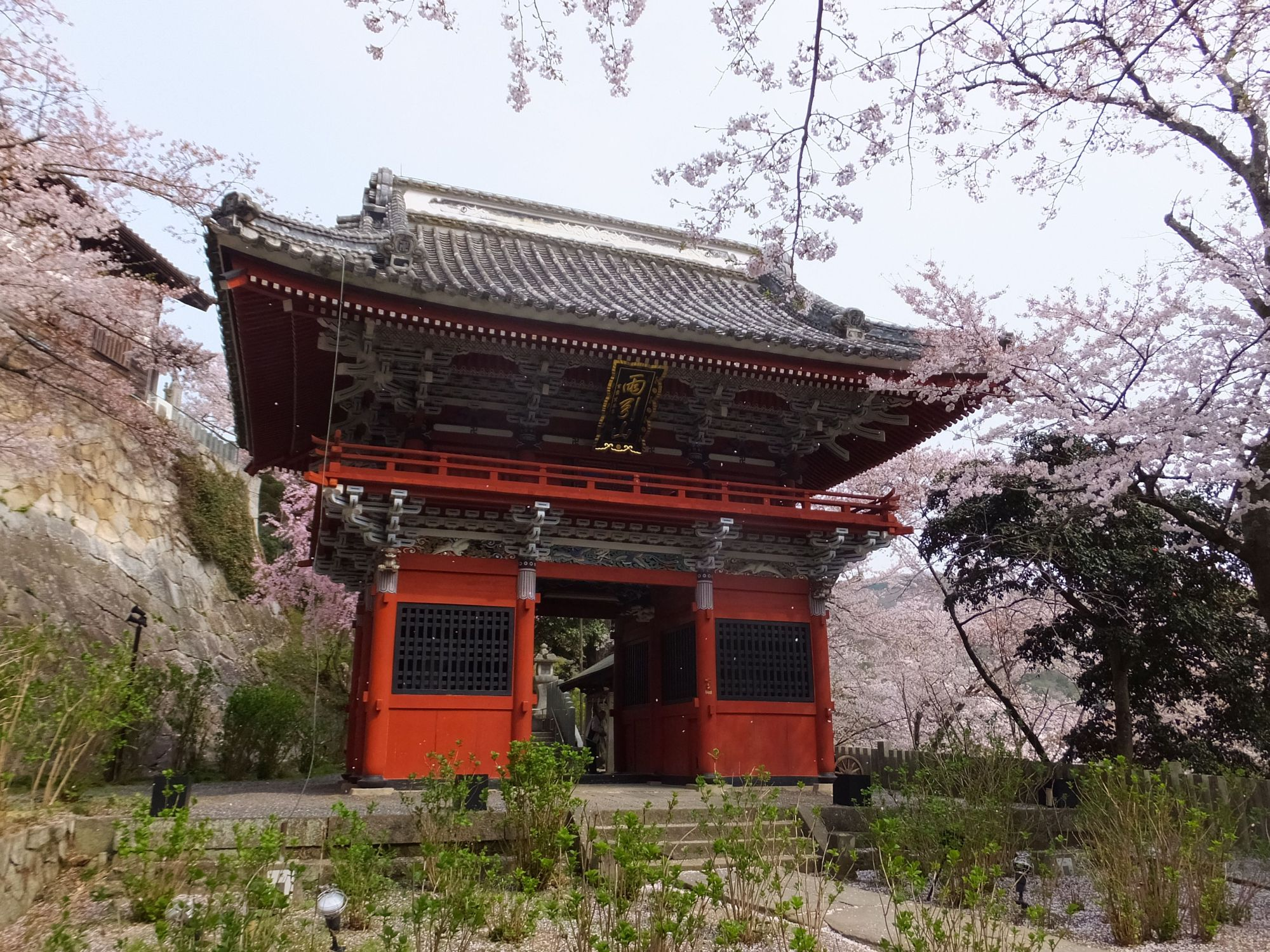 Niōmon gate of Rakuhō-ji temple in Sakuragawa, Ibaraki